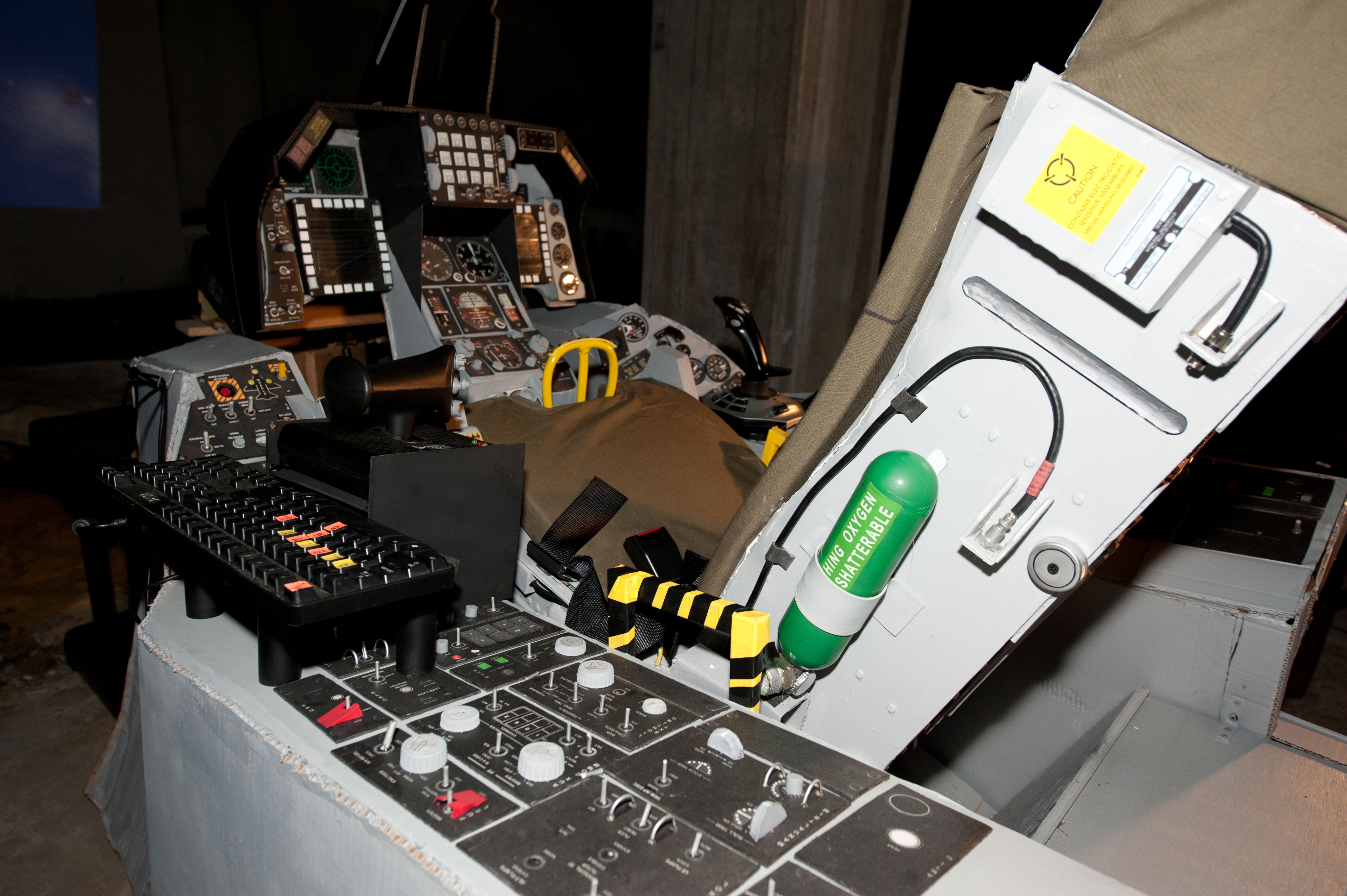 David Gatling of Newport News, Va., used an old entertainment center to build the ejection seat of his “green” F-16 simulator. The simulator is made entirely from recycled and reclaimed materials and is fully functional. (U.S. Air Force photo by Melissa Walther/Released) Unit: 633rd Air Base Wing